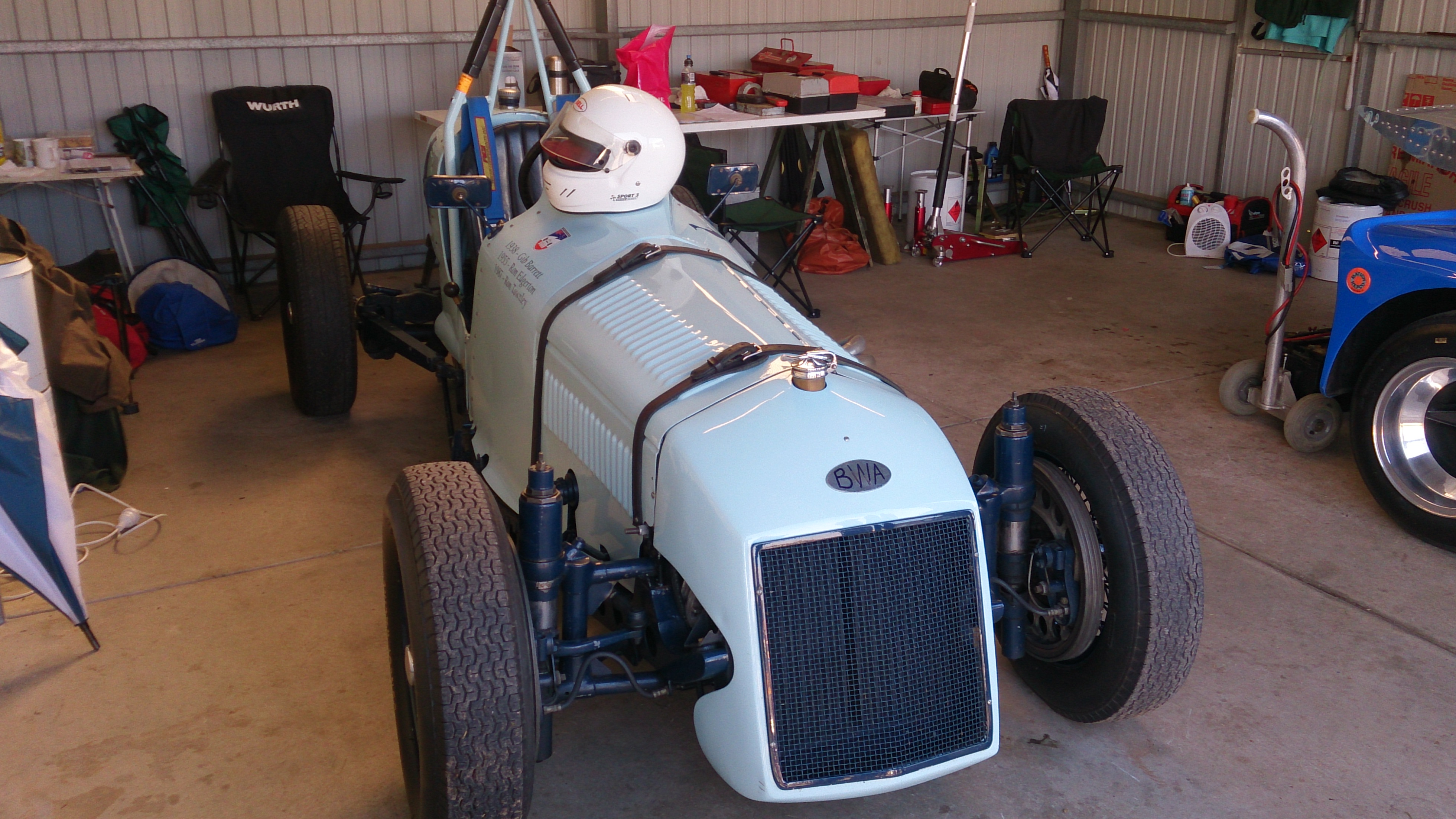 The BWA of Ron Townley at Mallala Motor Sport Park on 26 April 2015. This car placed 12th in the 1953 Australian Grand Prix, driven by Alf Barrett & Julian Barrett